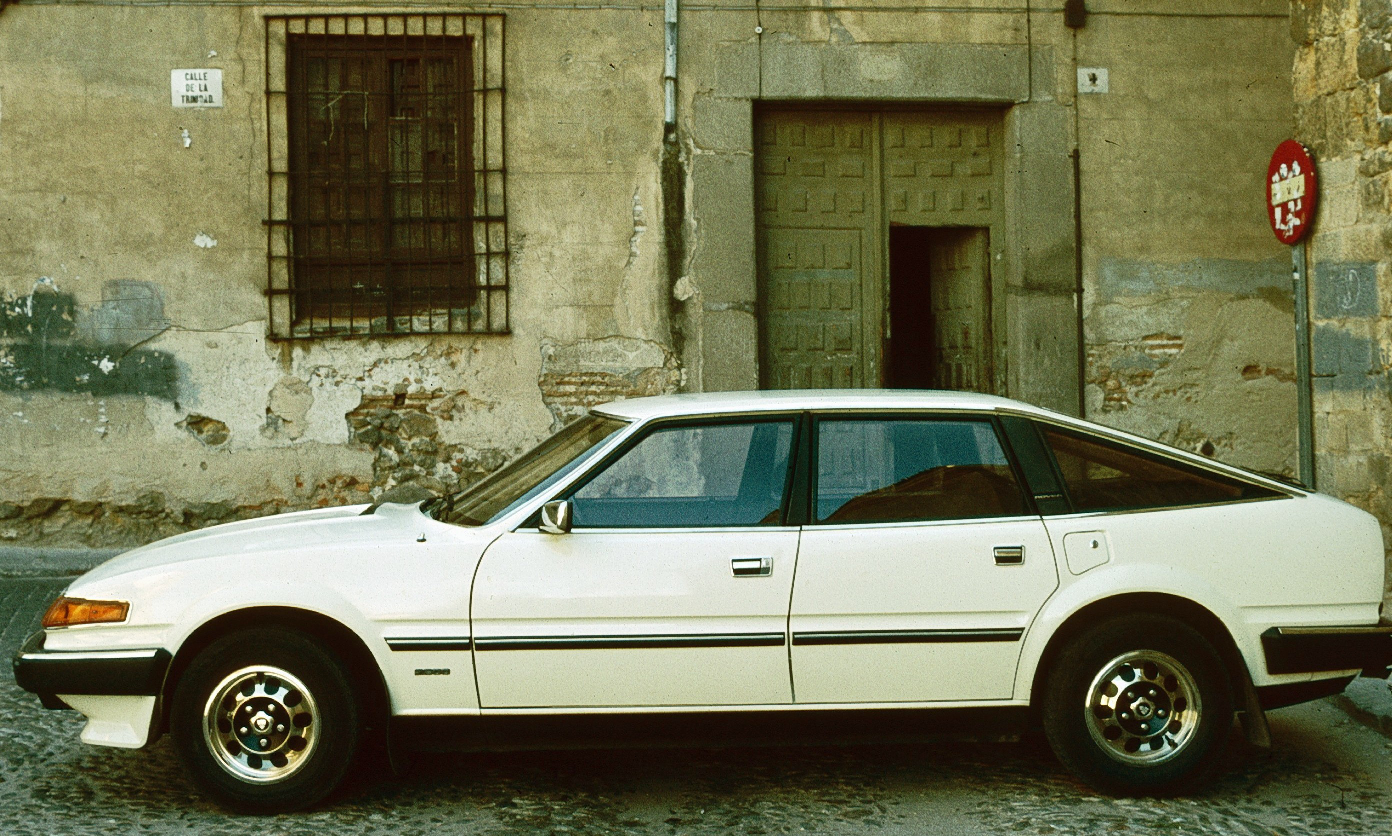 Rover 2000 in profile